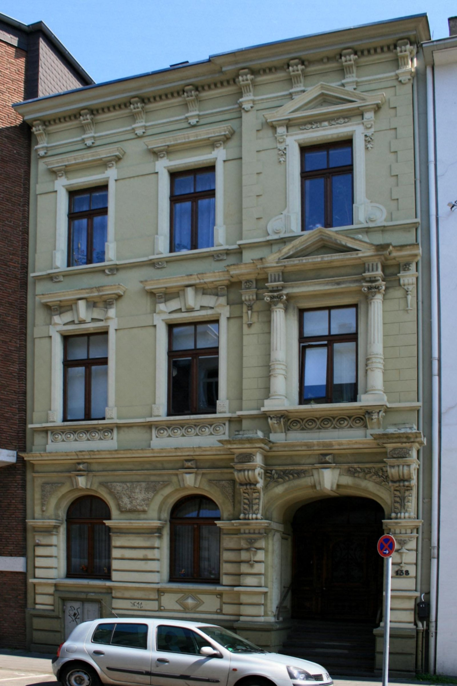 Cultural heritage monument No. R 061 in Mönchengladbach